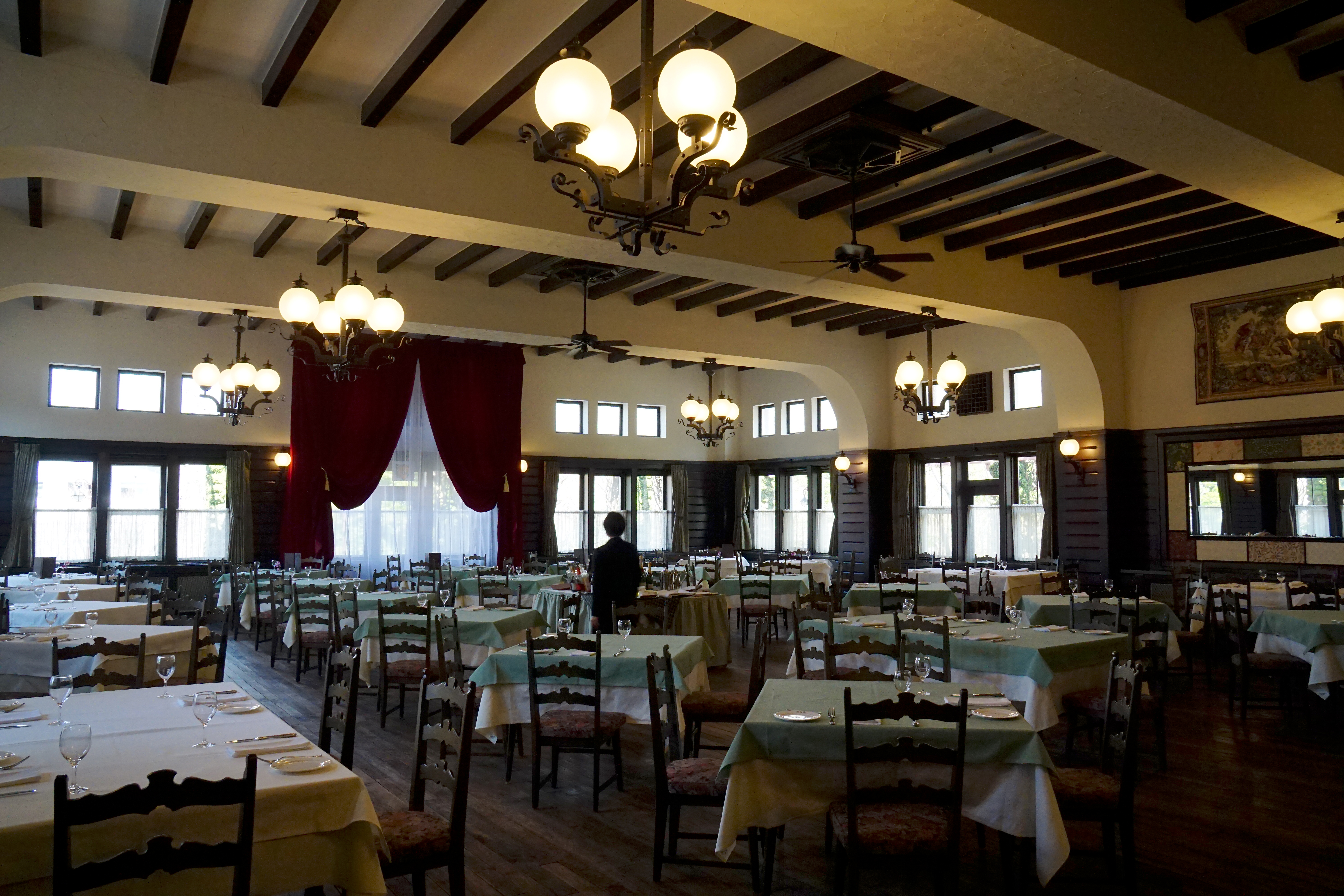 Unzen Kanko Hotel in Unzen City, Nagasaki prefecture, Japan.